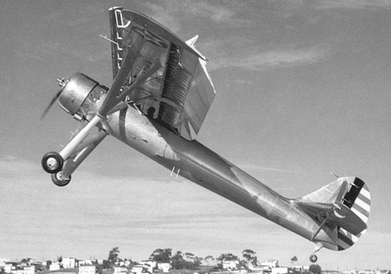 Ryan YO-51 Dragonfly taking off.